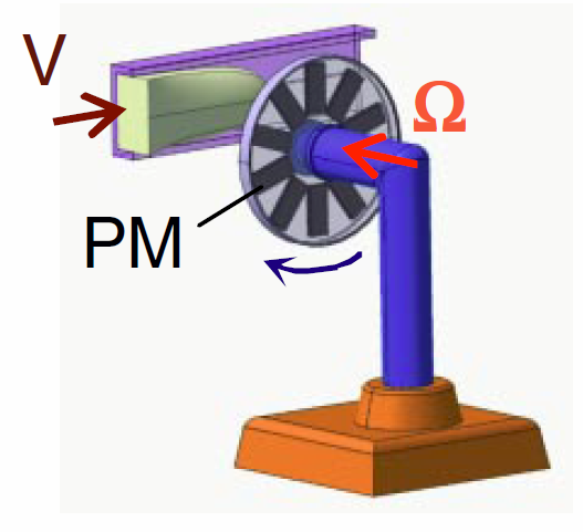 Rotary LFV